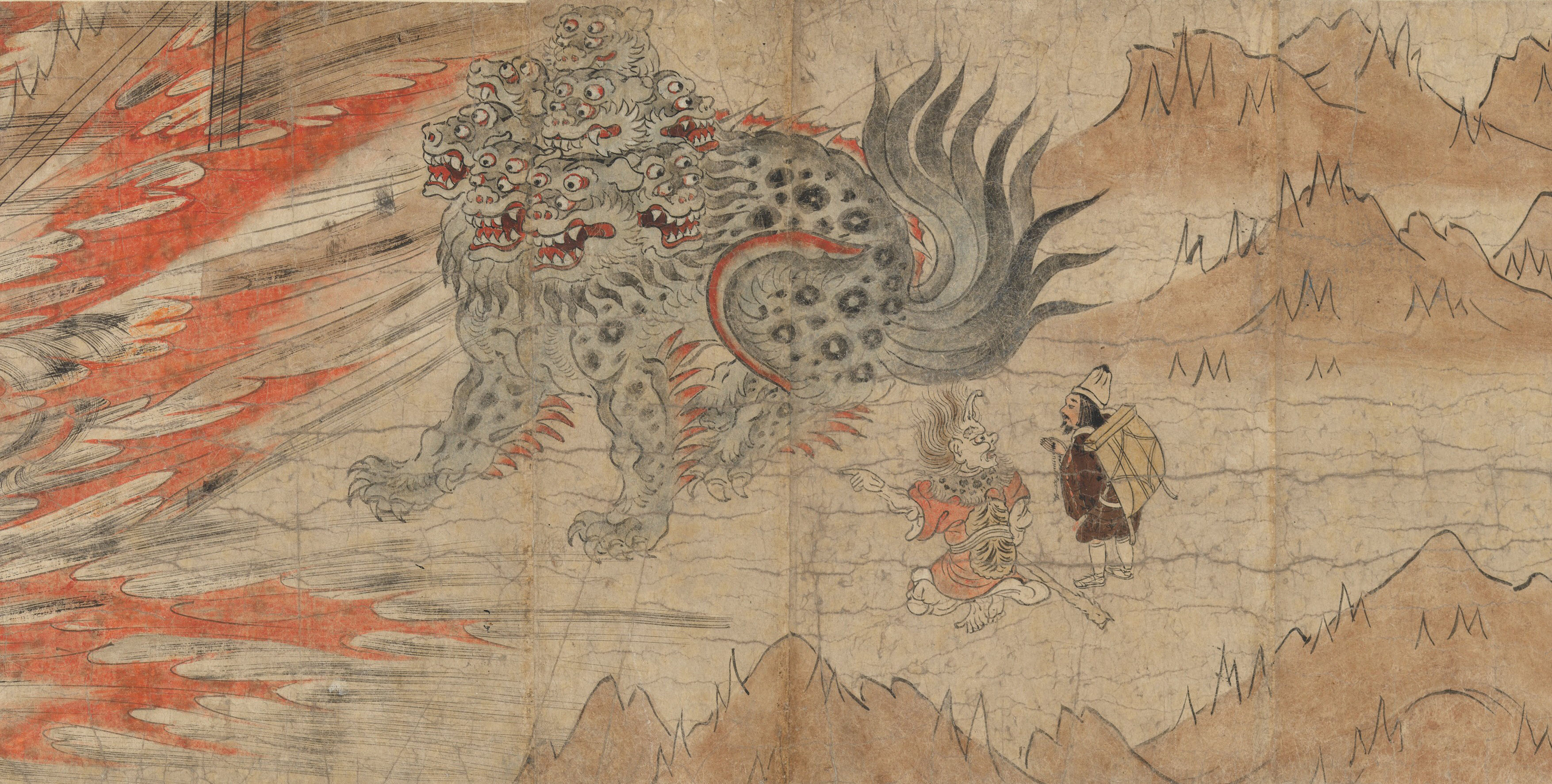 Japan; Handscrolls; Paintings